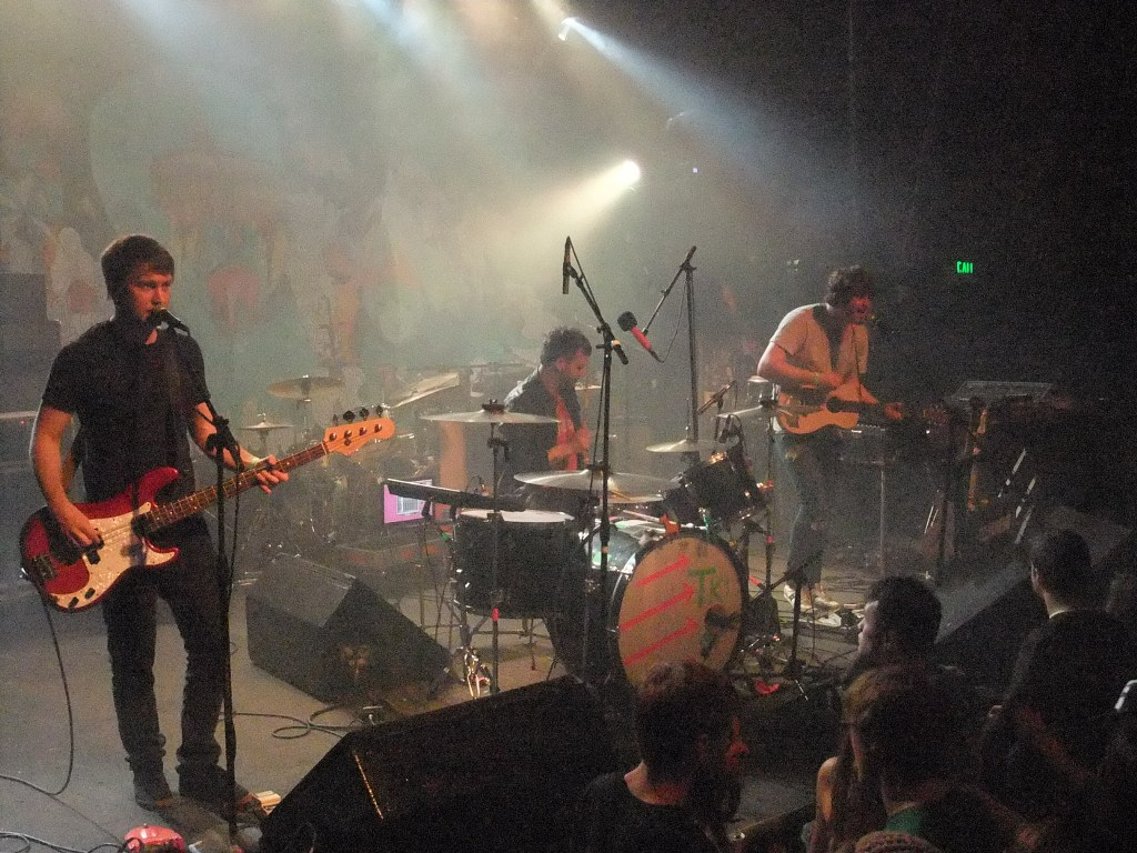 US-Band Telekinesis